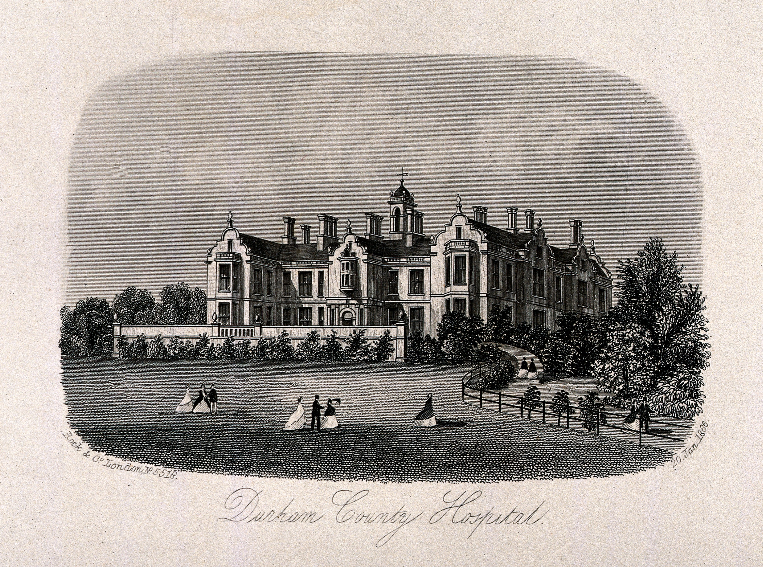 Durham County Hospital. Steel engraving, 1866. Iconographic Collections